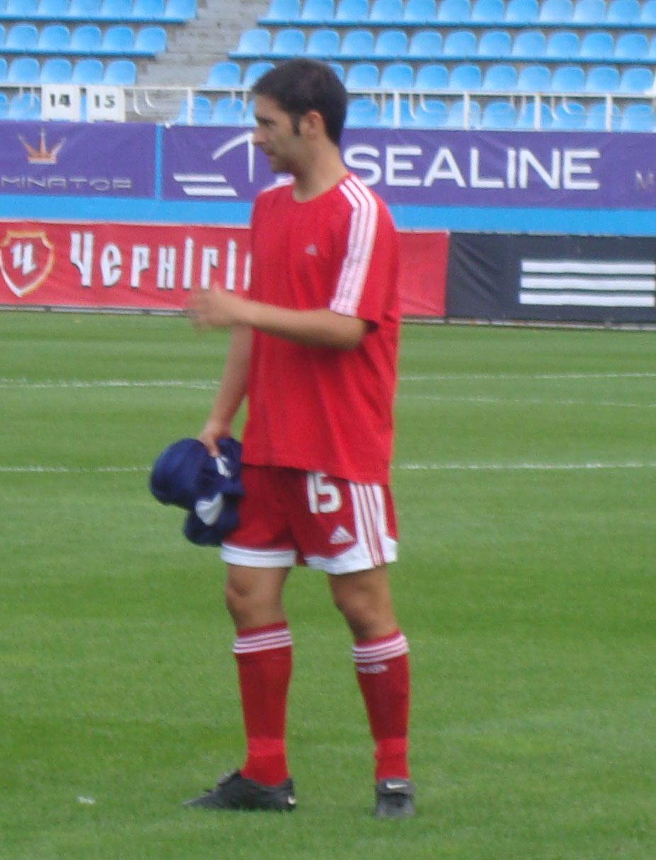 Jordi Escura, Andorran footballer, before the game Ukraine vs Andorra